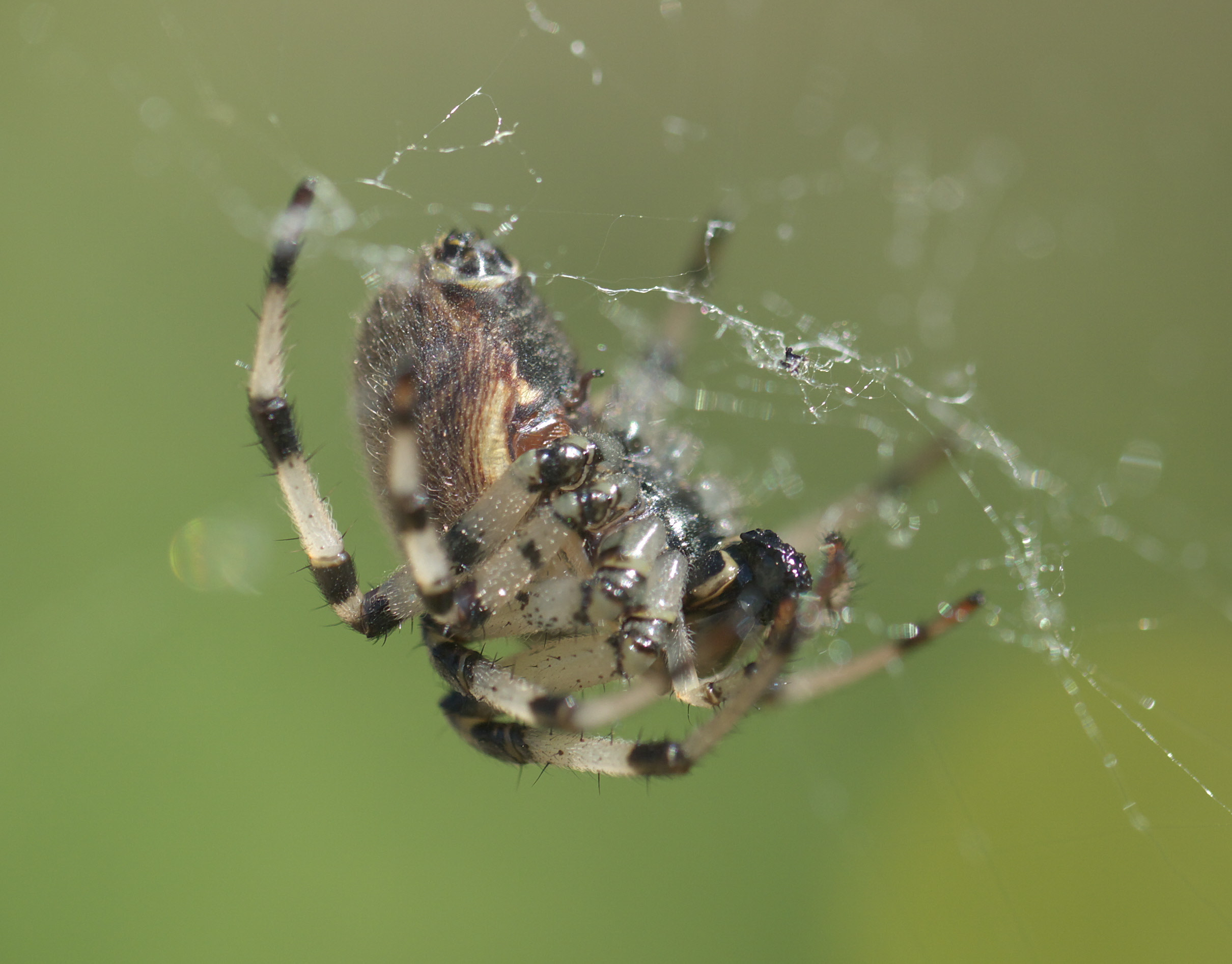 Araneus trifolium, Shamrock Orbweaver, ID Confidence: 90